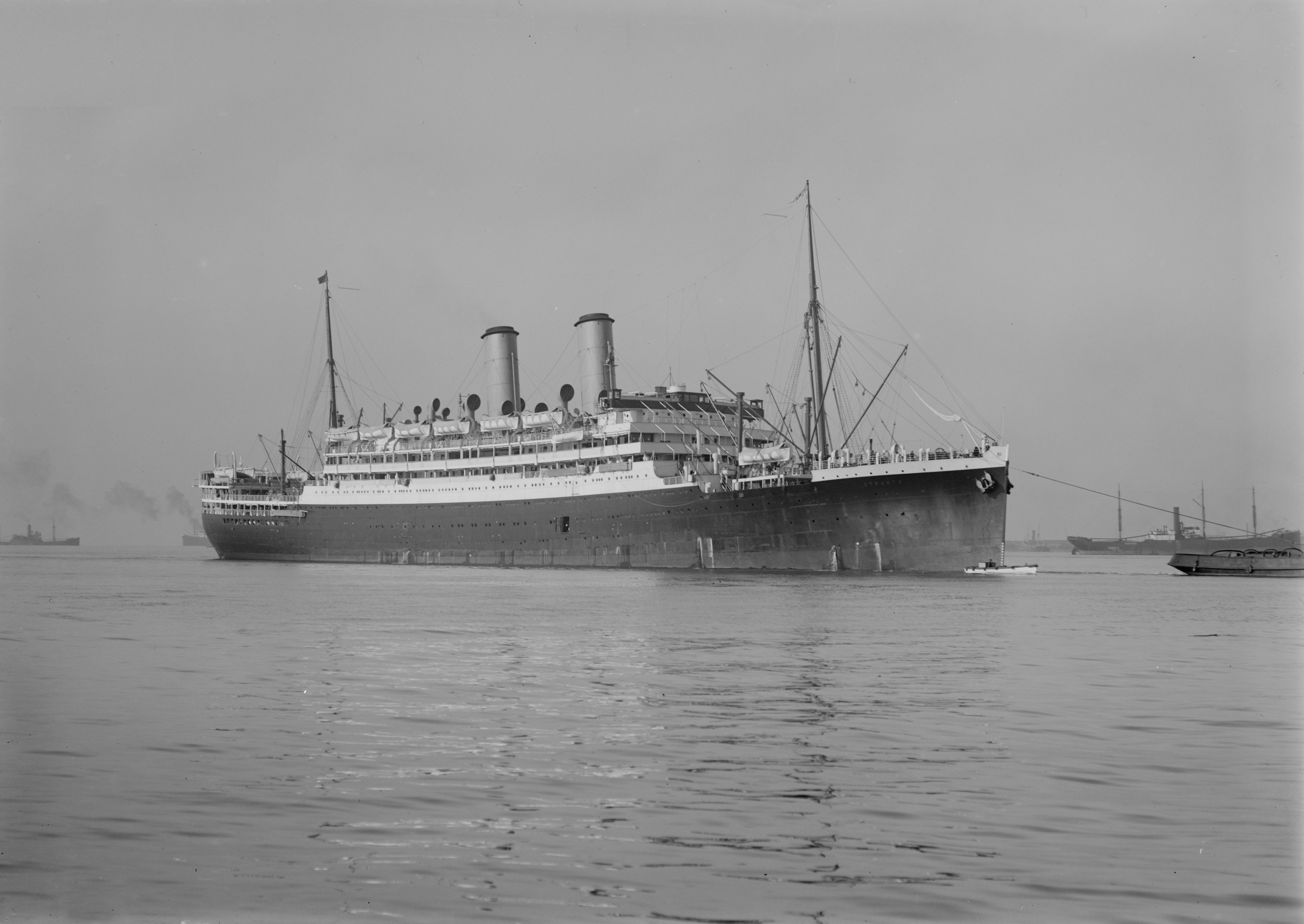 Original caption: “The „Otranto“ is part of the Orient Line.”